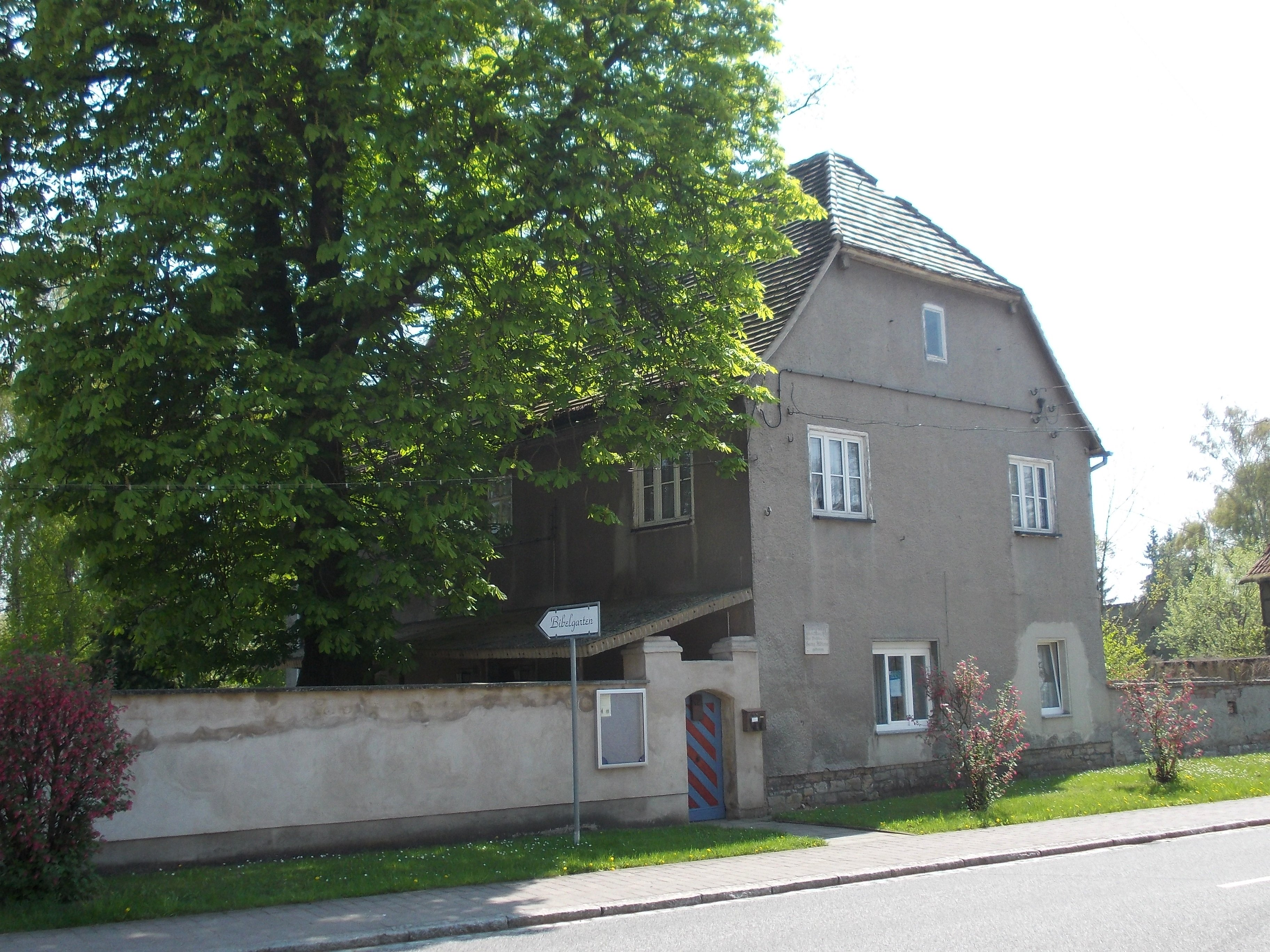 Rectory in Unternessa (Teuchern, district: Burgenlandkreis, Saxony-Anhalt), birthplace of the poet Johann Georg Albinus (1624-1679).